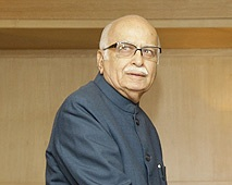 This file is a cropped version of File:Dmitry Medvedev in India 4-5 December 2008-7.jpg.